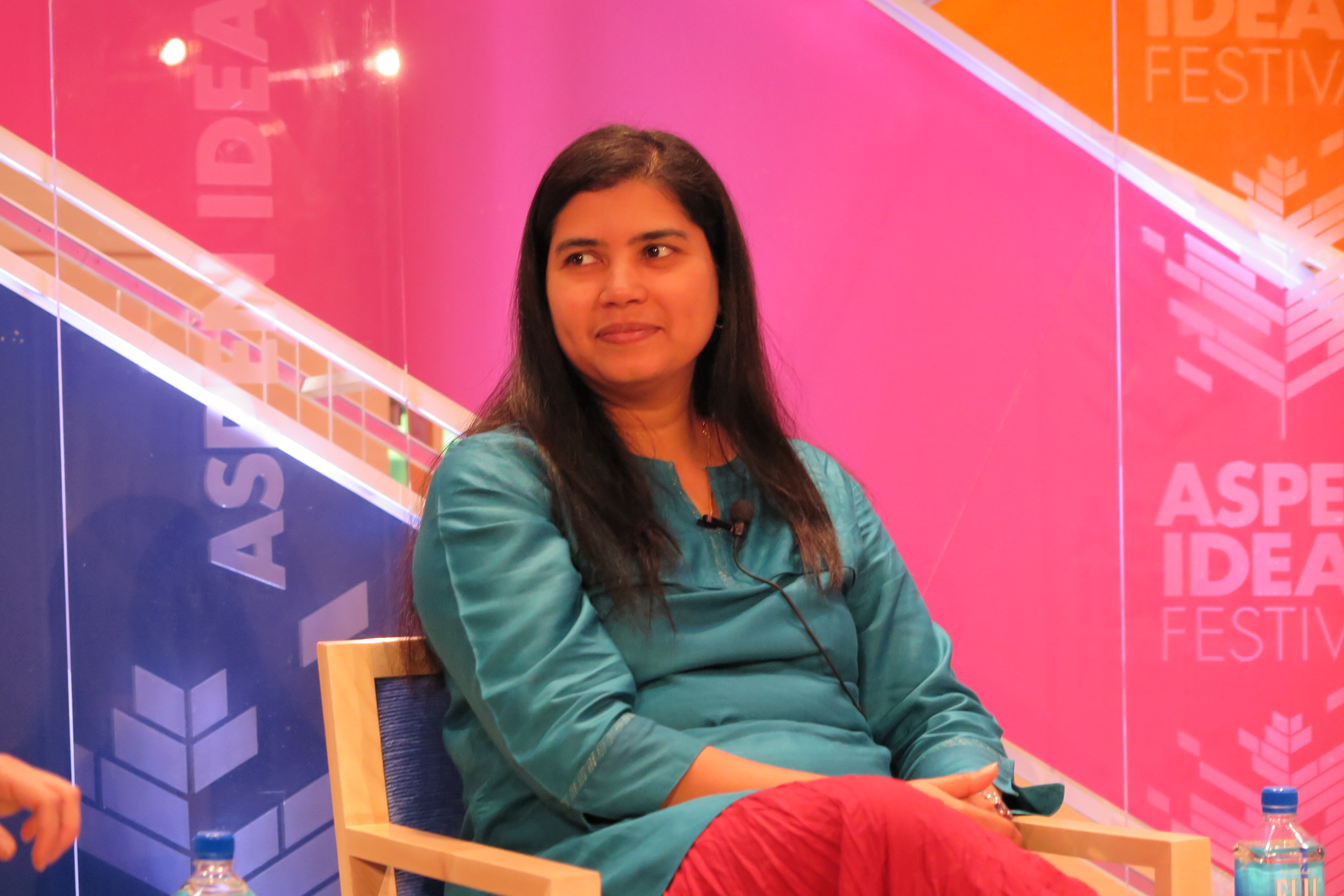 ElsaMarie D'Silva